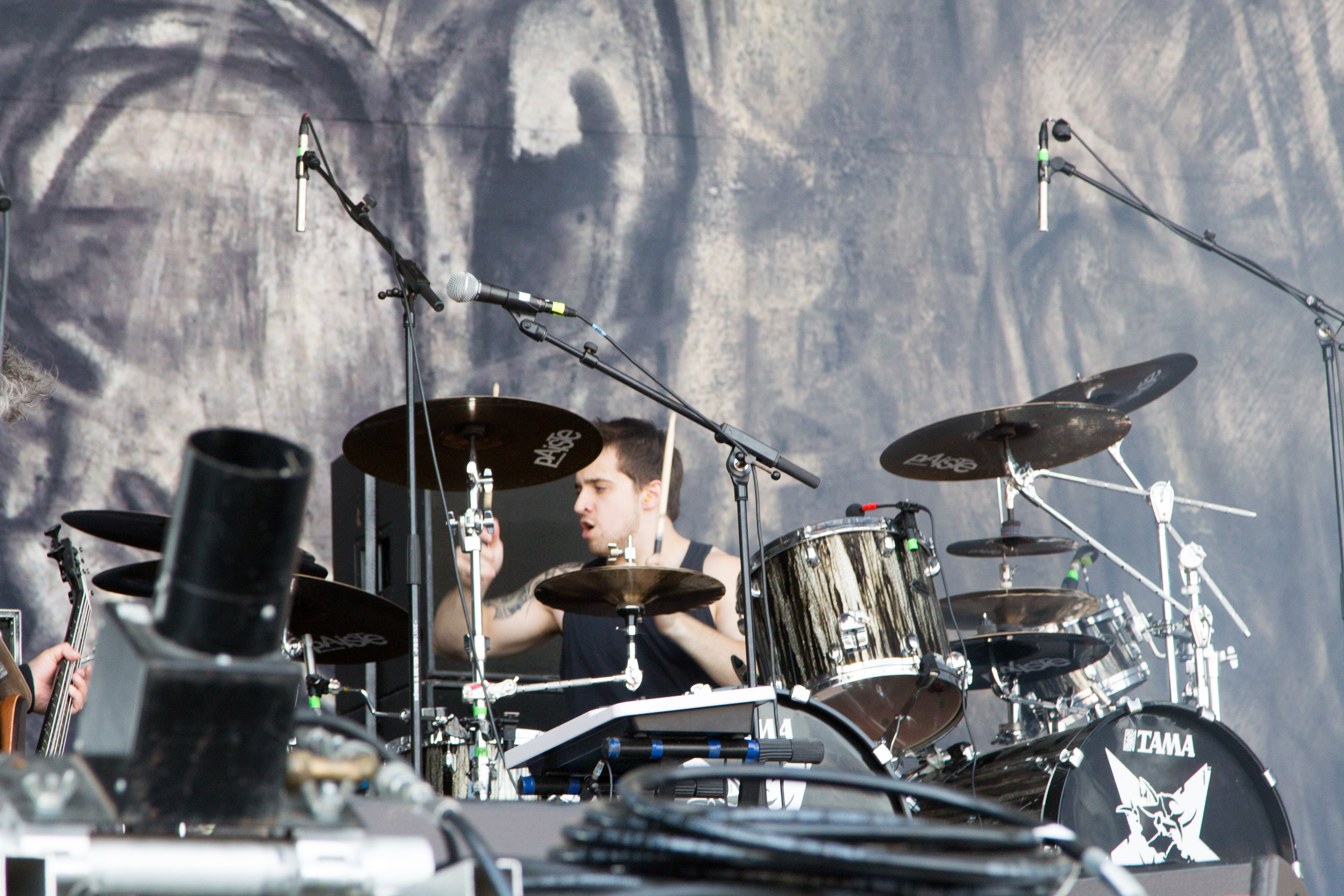 Nova Rock 2014-Sepultura-Eloy Casagrande